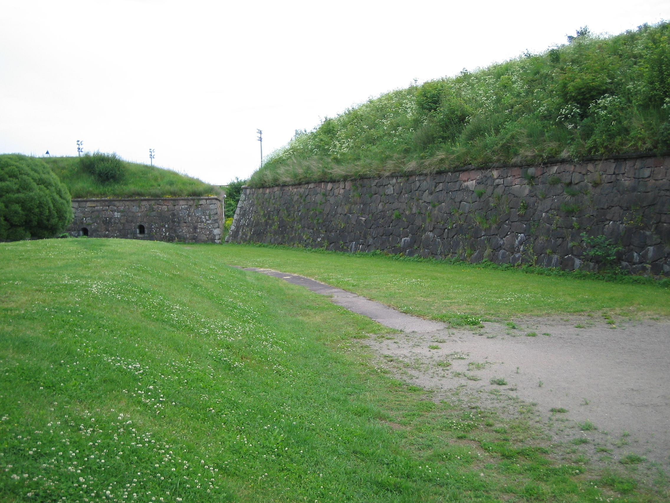 Fortress of Hamina, caponier and main defence wall